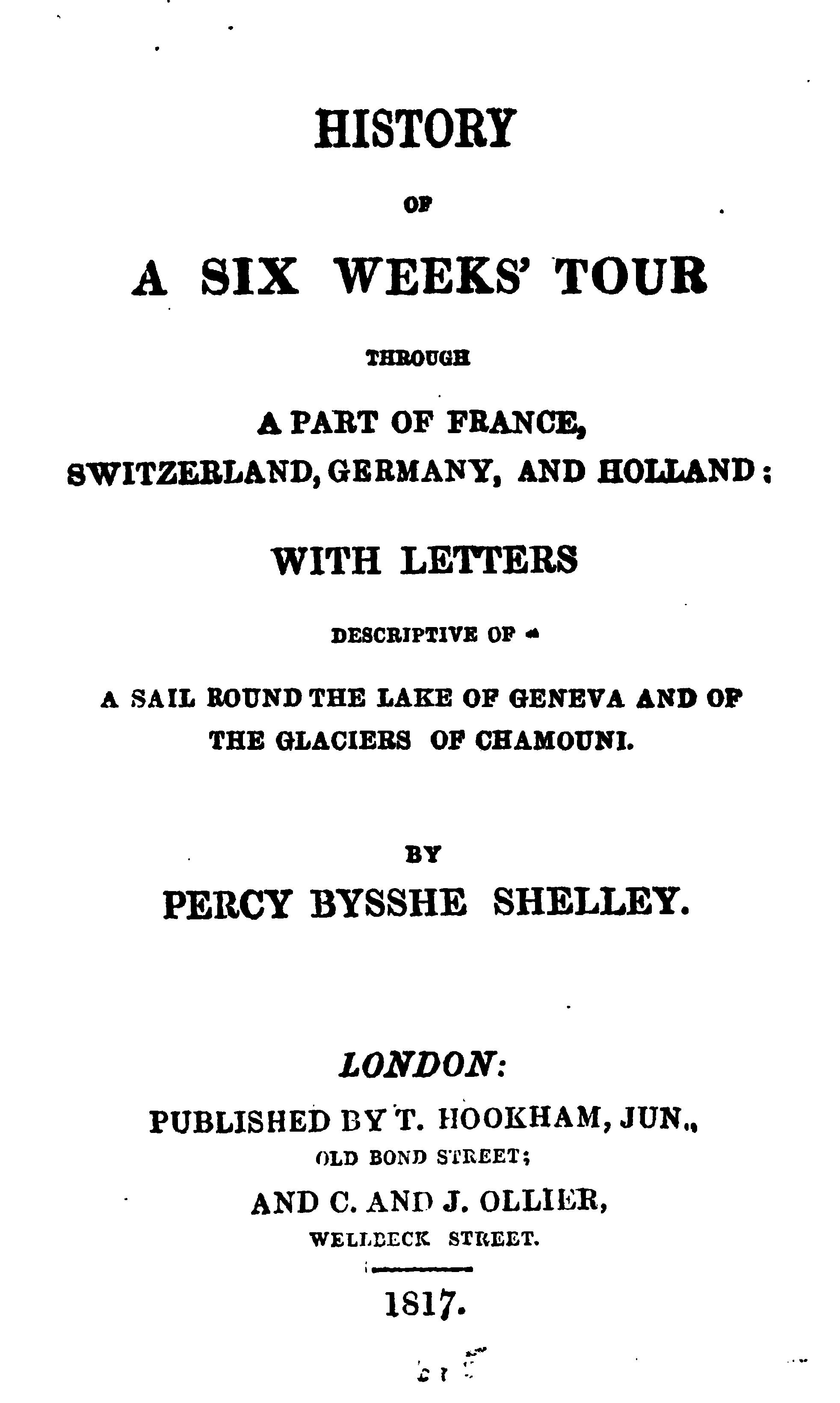 Title page from History of a Six Weeks' Tour